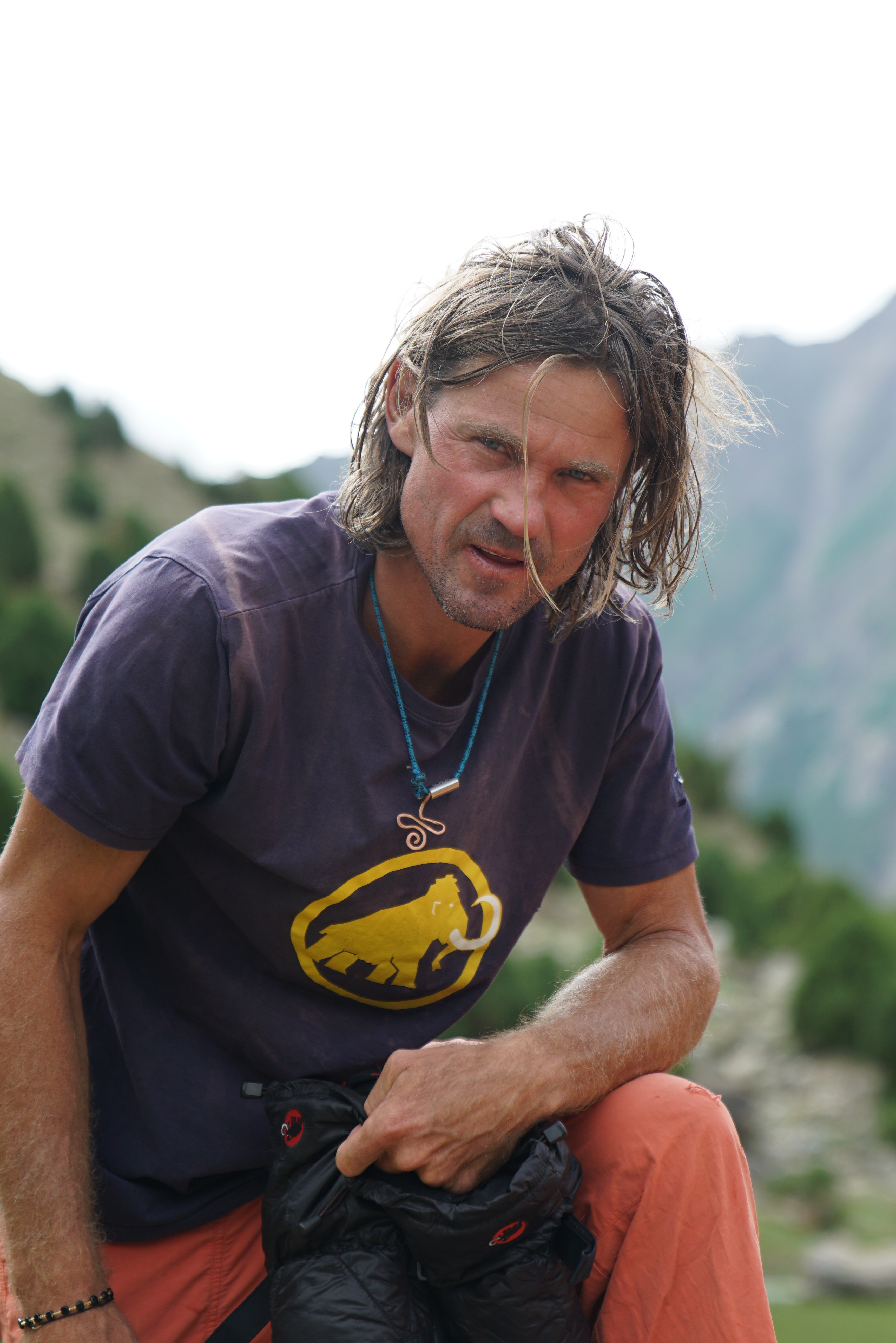 The high altitude climber Marek "Maara" Holeček is packing his stuff for an acclimatization ascend, Nanga Parbat, Pakistan, summer 2018